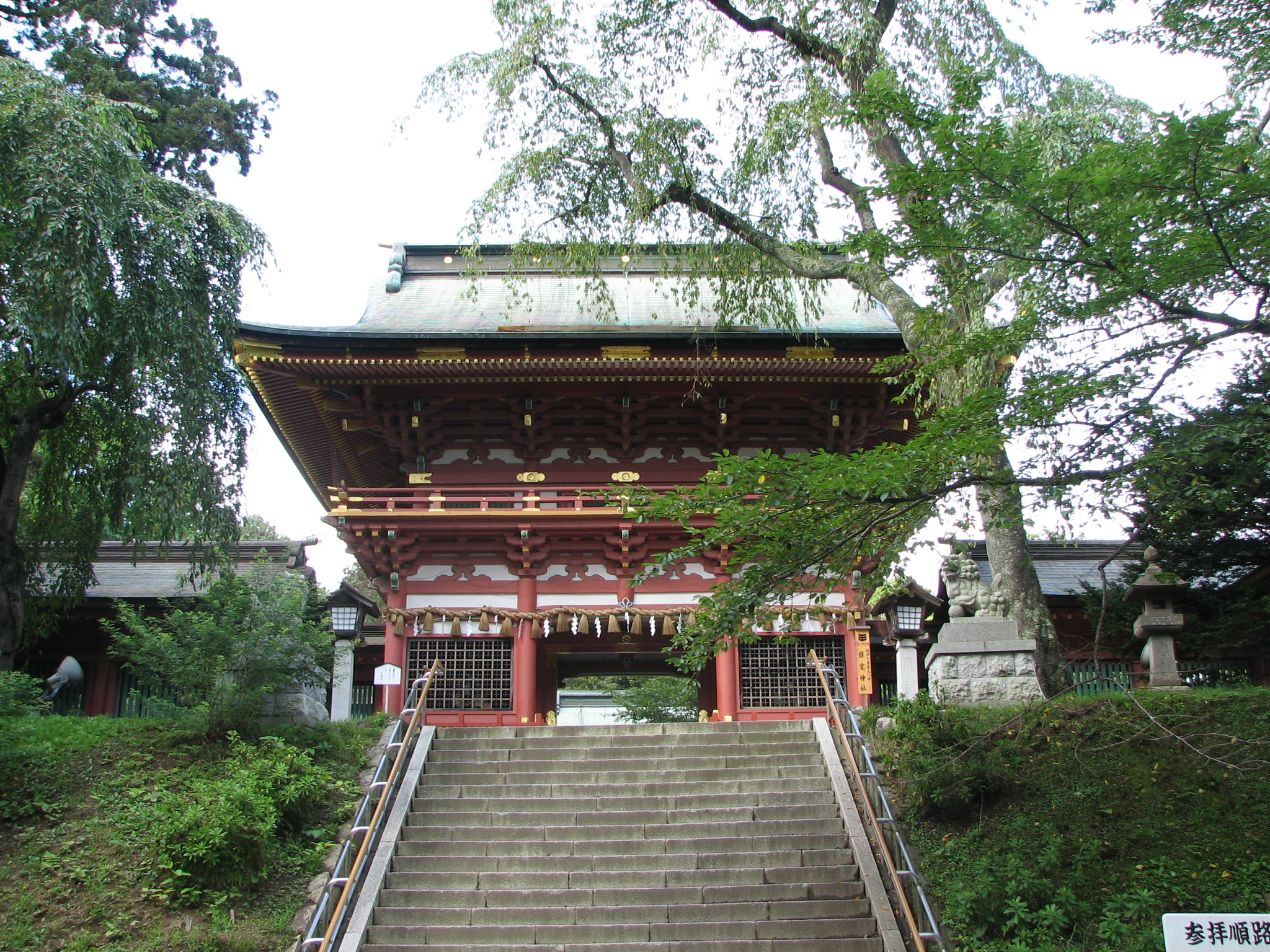 the rōmon (gate) of Shiogama Shrine, Shiogama, Miyagi, Japan 鹽竈神社楼門（宮城県塩竈市）